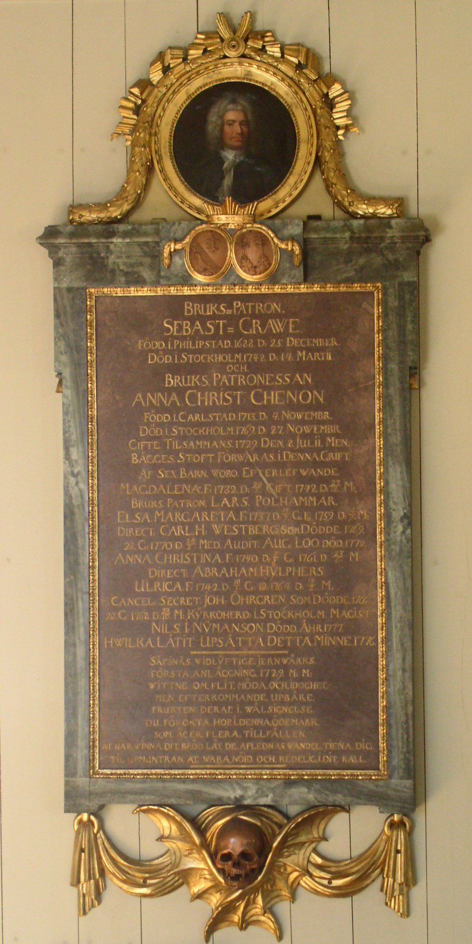 Sebastian Grave's epitaphium in Säfsnäs Church, Dalarna, Sweden